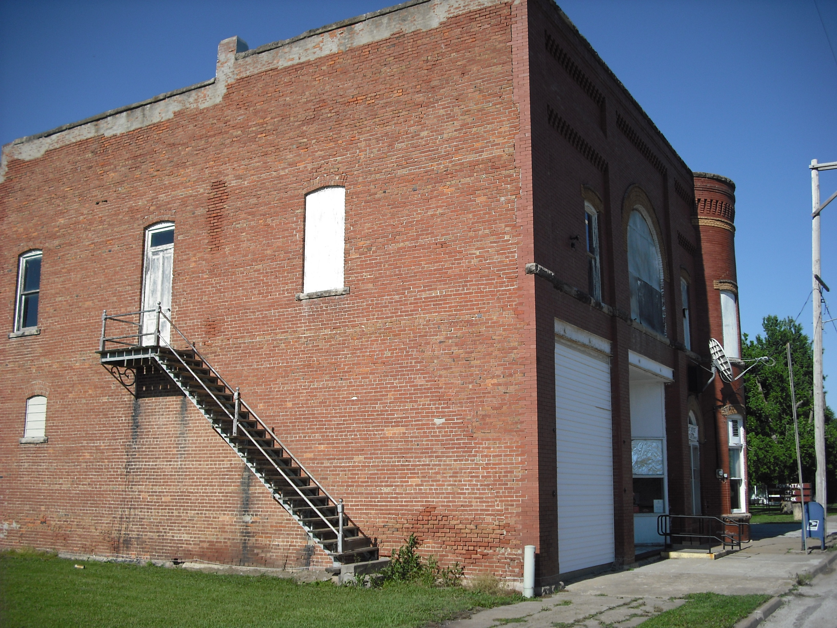 The large building in the center of Powhattan, Kansas which houses the Post Office and a couple other civic businesses.